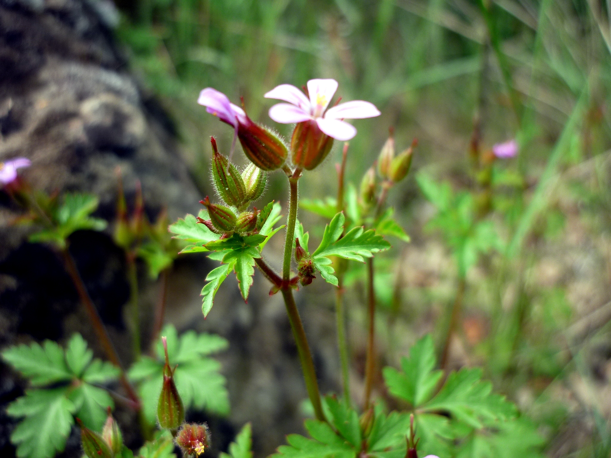 Geranium robertianum. In Torà (Segarra-Catalunya). On 650 m. altitude